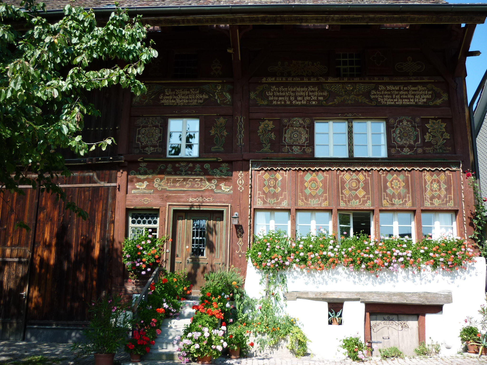 Wermatswil ZH, Switzerland